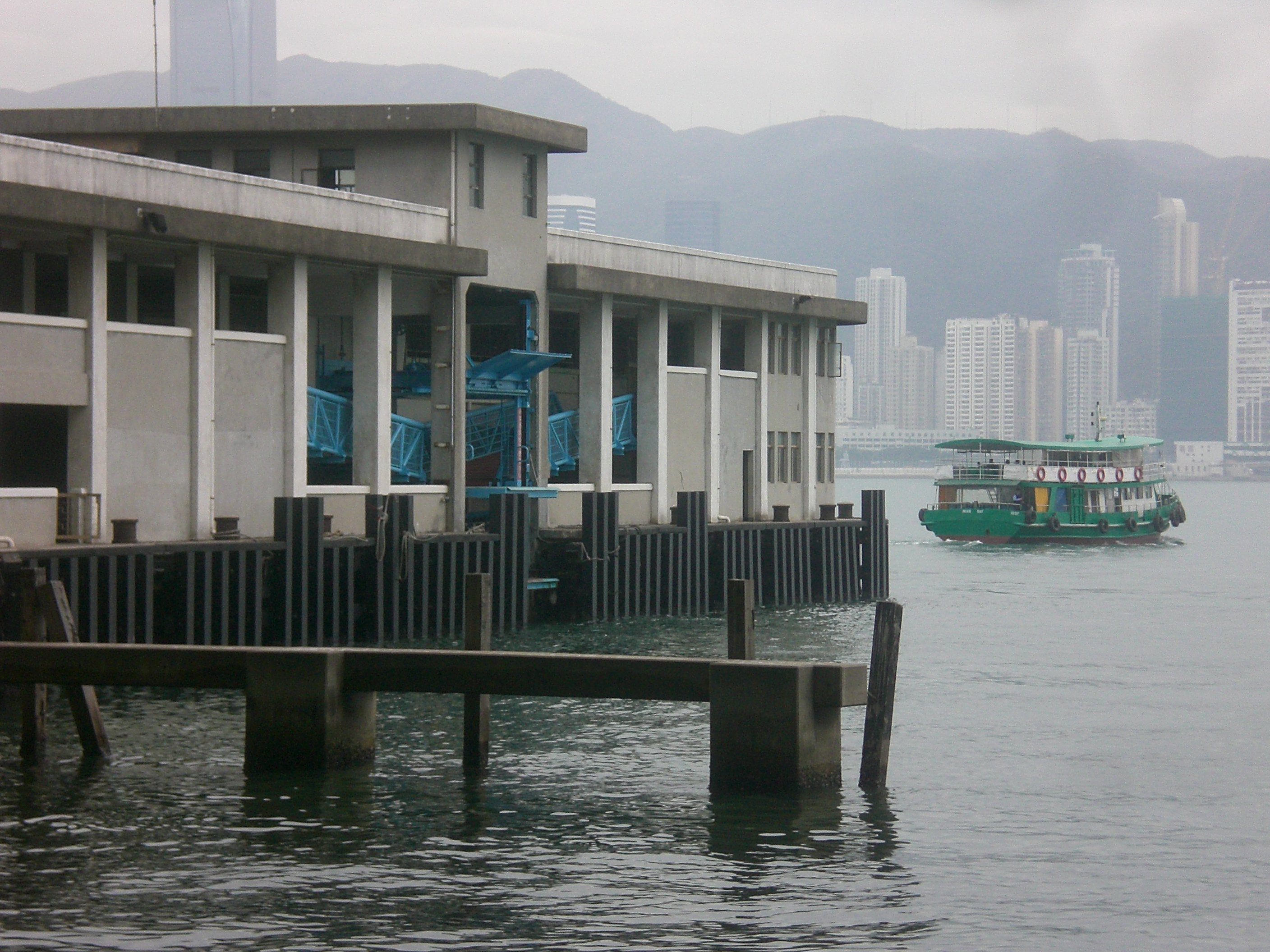 水路zh:北角至zh:觀塘 觀塘碼頭 富裕小輪